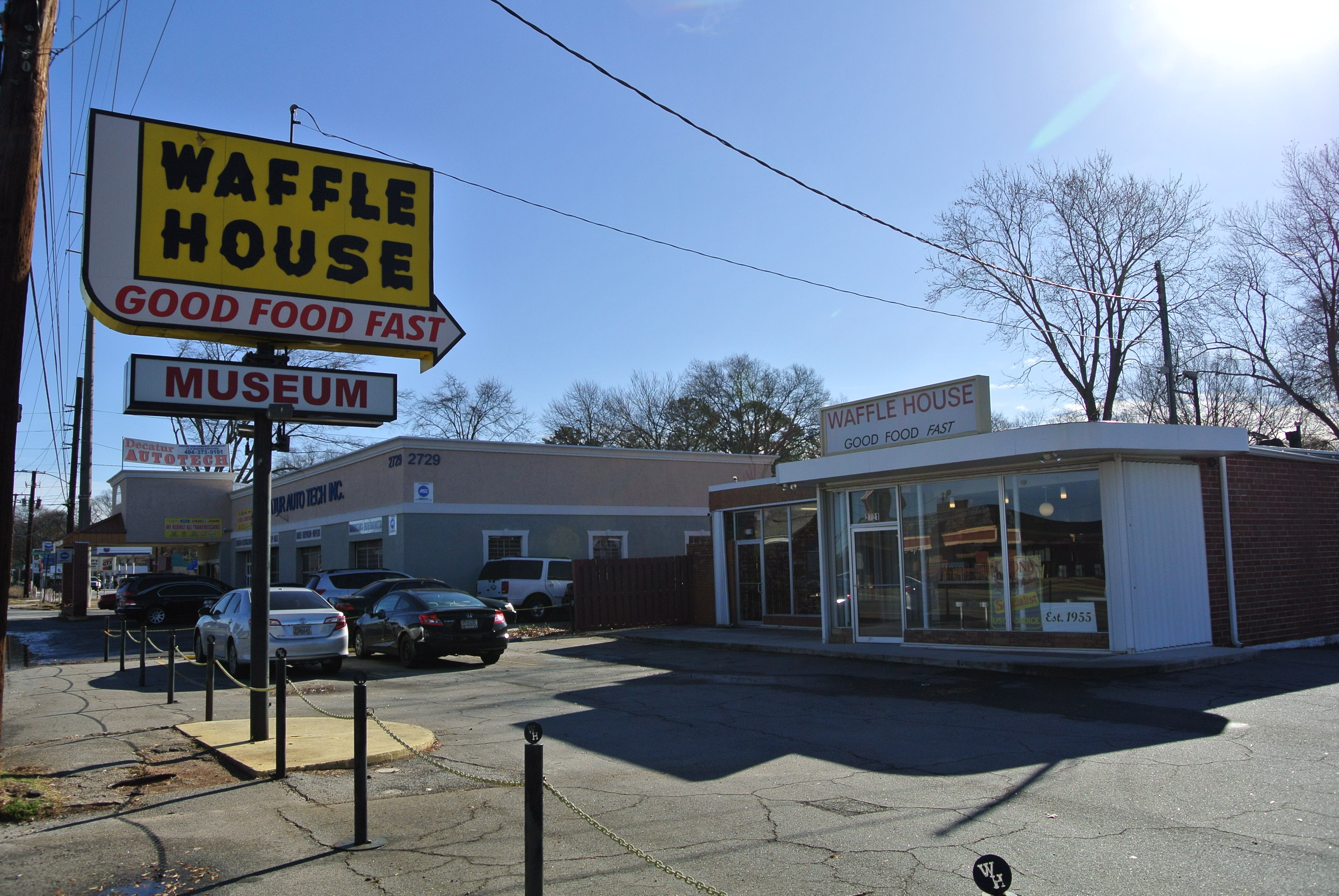 Exterior shot of the first Waffle House restaurant, now a museum.